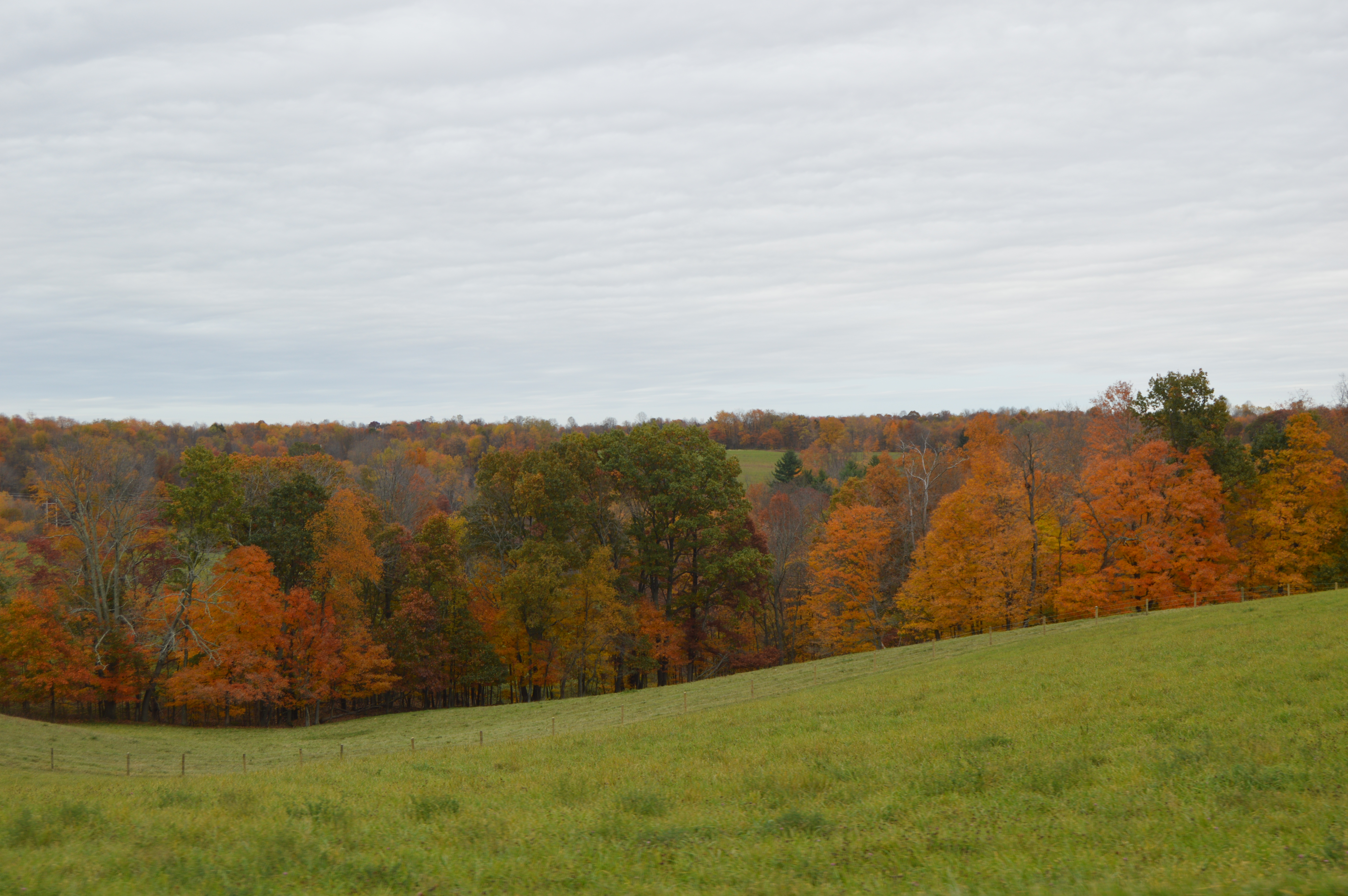 Fields and woods on the northeastern side of State Route 800 southeast of Barnesville in central Somerset Township, Belmont County, Ohio, United States.